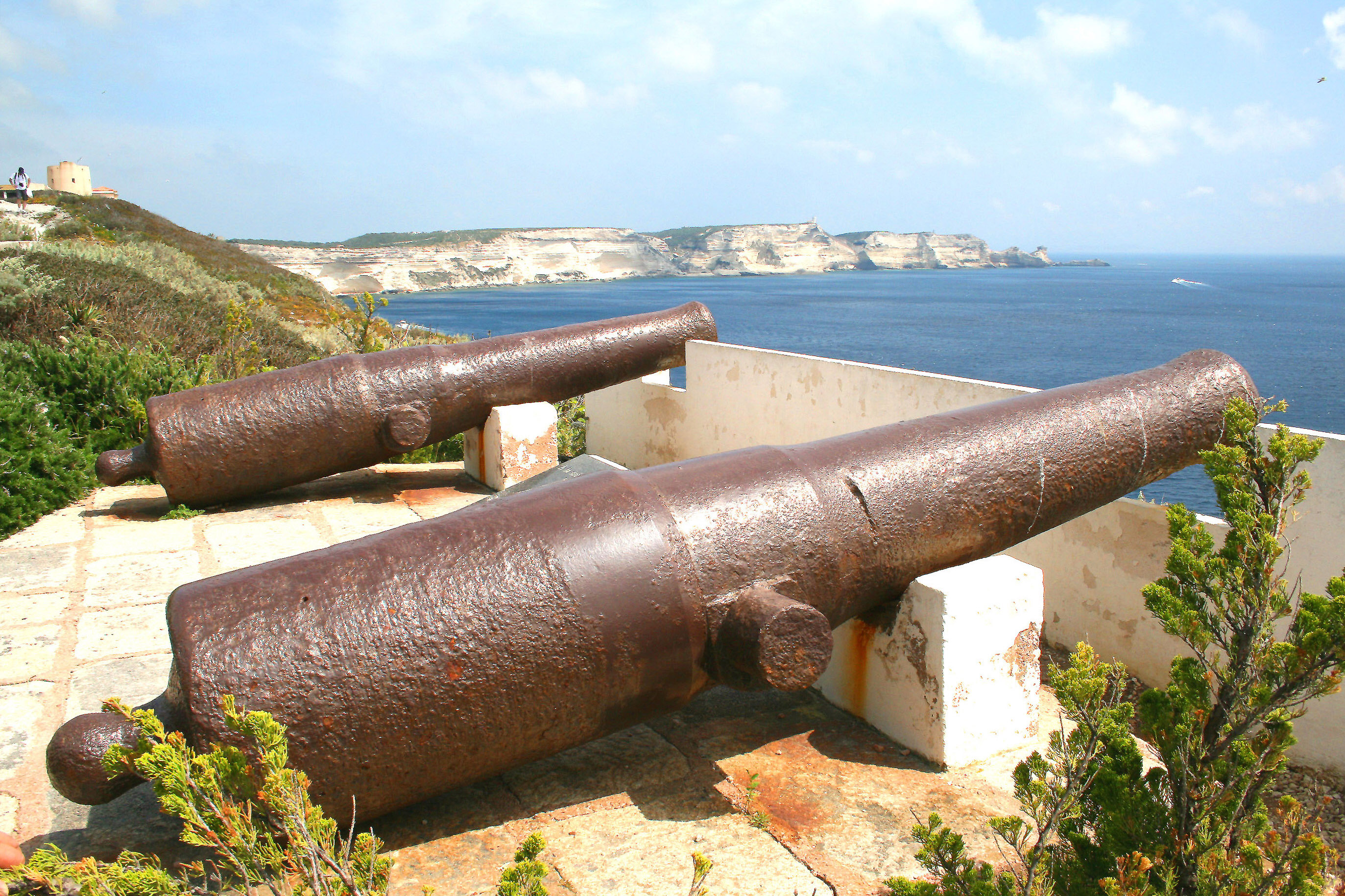 Bonifacio (Corse-du-Sud) - France, guns in the fortress. Corsu: Bunifaziu (Corsica suttana) - Francia, cannone in citatella. Walon: Bonifacio (Corse do Sud) – canons dins l’forterèsse.